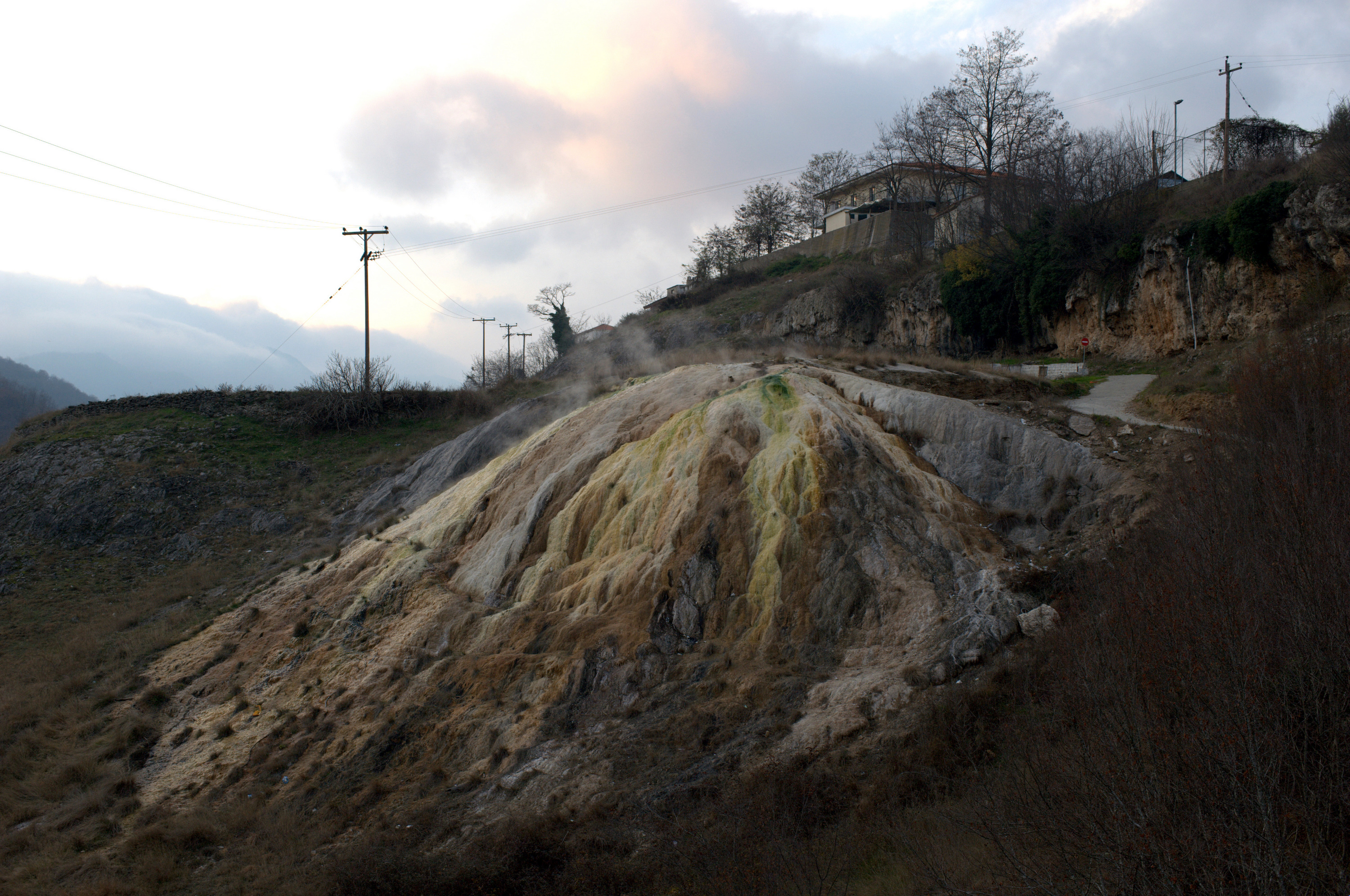 Thermes - Xanthi springs, Xanthi Prefecture, Greece.